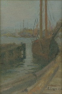 Elizabeth Rebecca Coffin, Fishing Boat in Nantucket Harbor